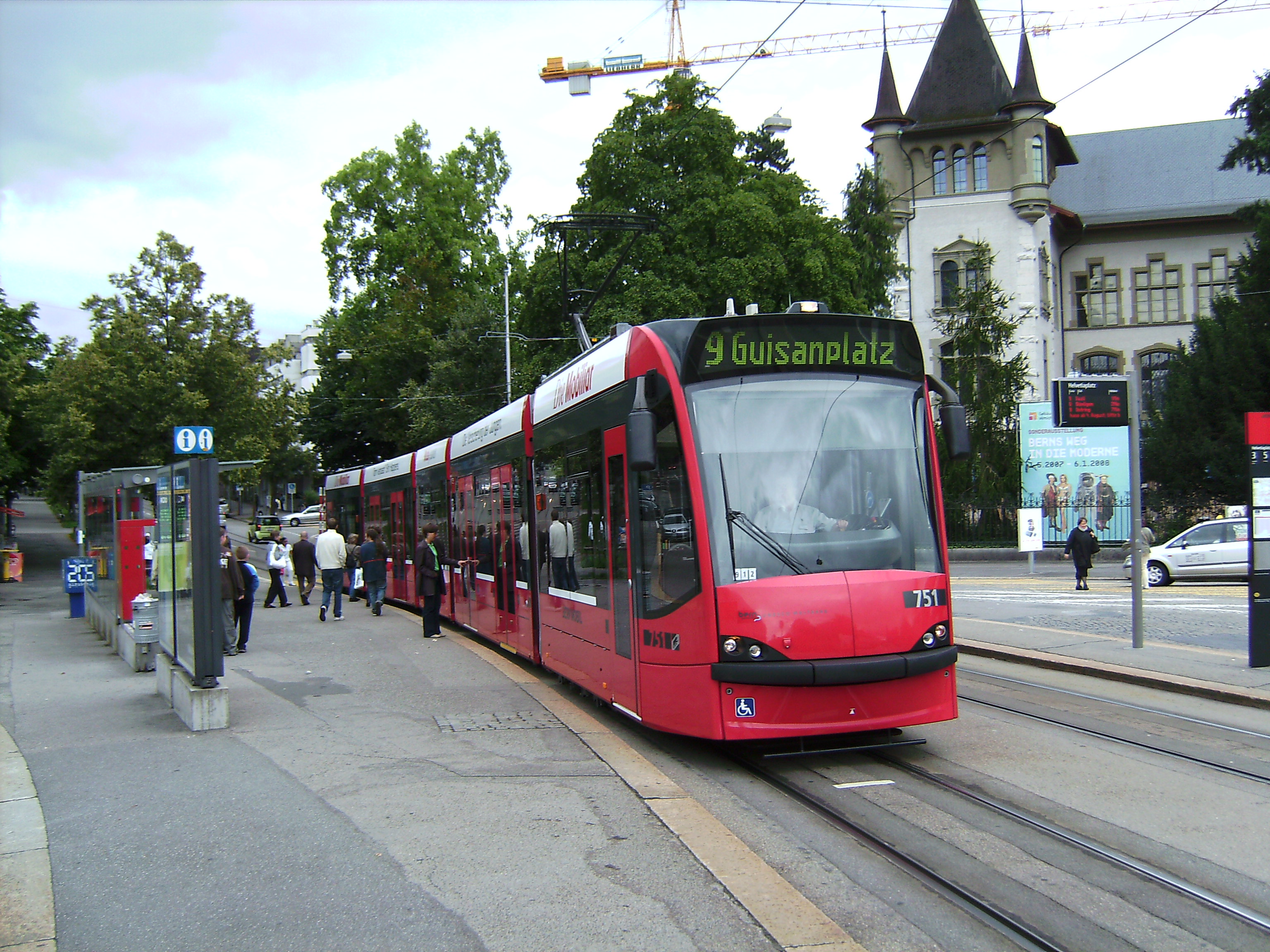 Combino tramway (car No 751) in Bern, Switzerland. Photo taken in the Helvetiaplatz tram stop. Tram line 9.